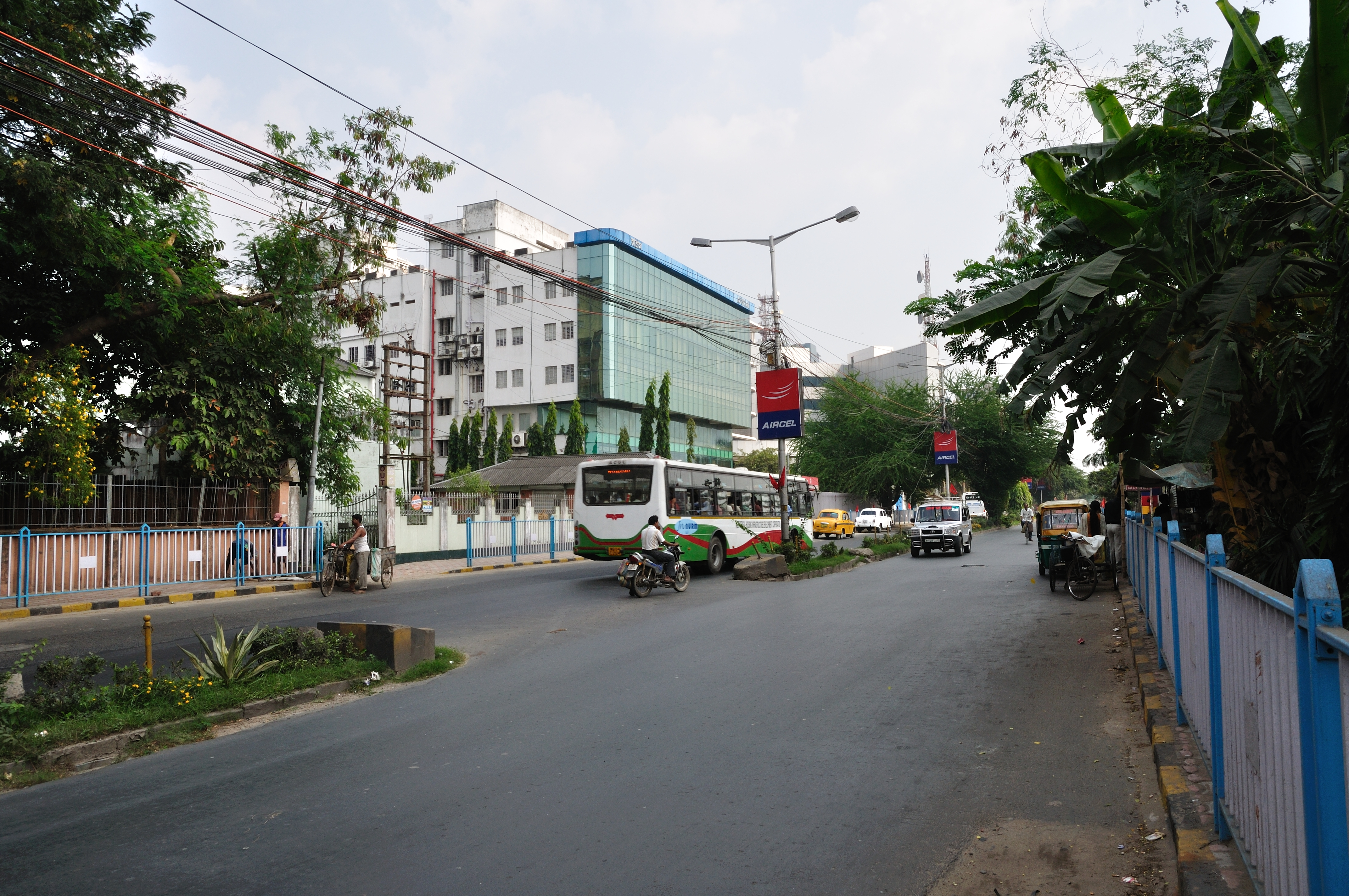 Bidhan Nagar or Salt Lake City as it is popularly called, is a planned satellite township in the Indian state of West Bengal.It is the Information Technology hub. The photo shows a part of the GN block of its 'sector - V'.